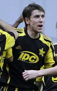 Andrei Corneencov